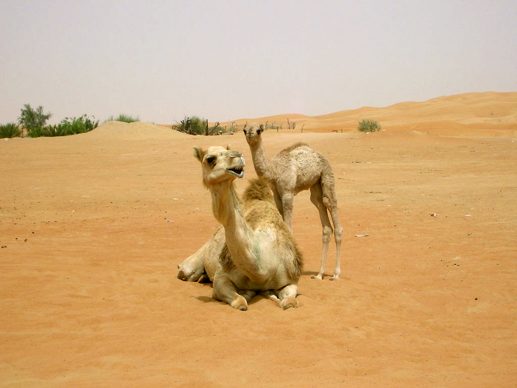 Femal dromedary with young at Dubai